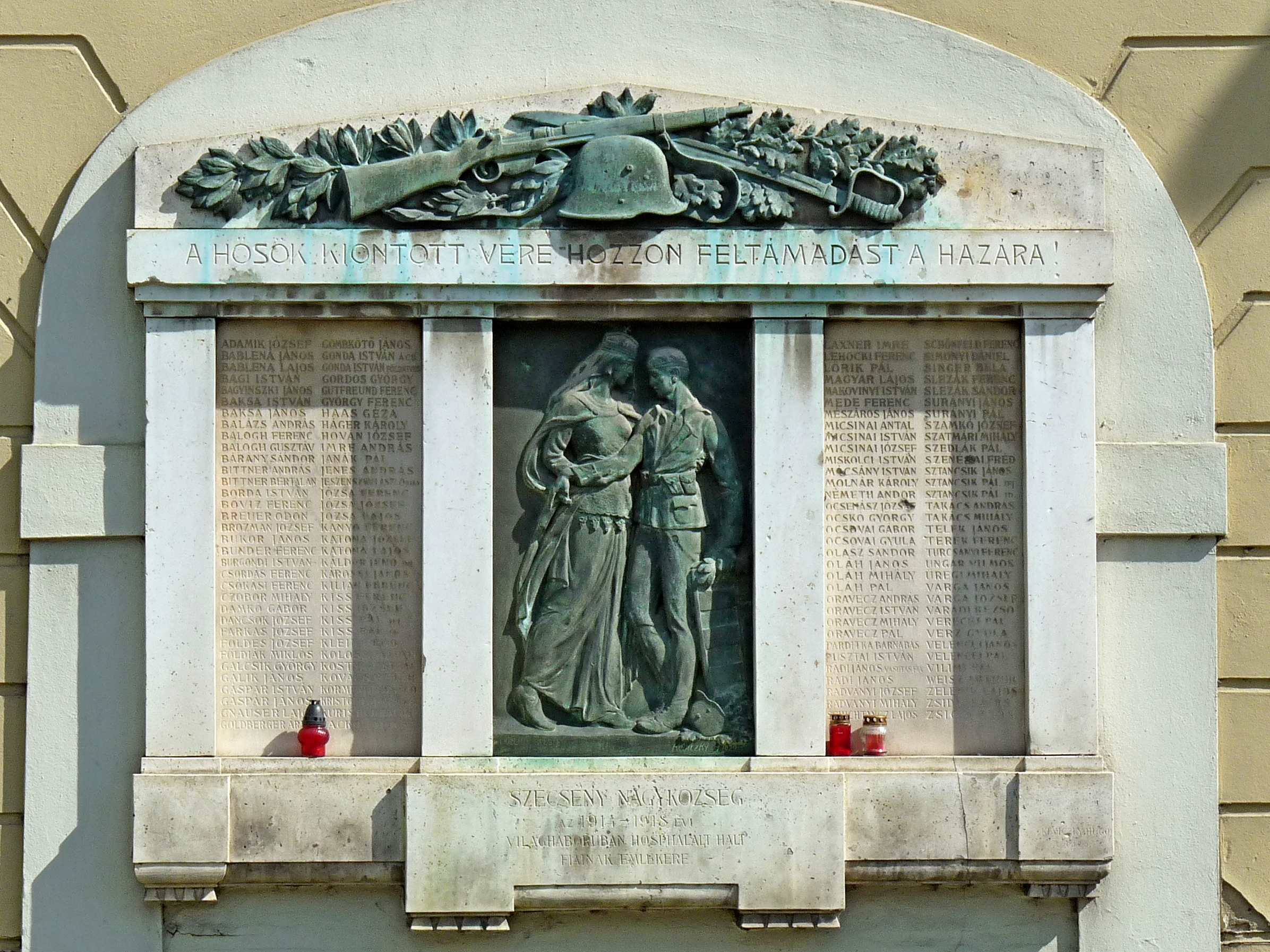 Commemorative plaque to the victims of the World War I affixed on the Fire tower's wall in Szécsény. The bronze relief sculpted by Mr Hugó Keviczky was inaugurated on 25 May 1930. (Szécsény, Rákóczi Street)